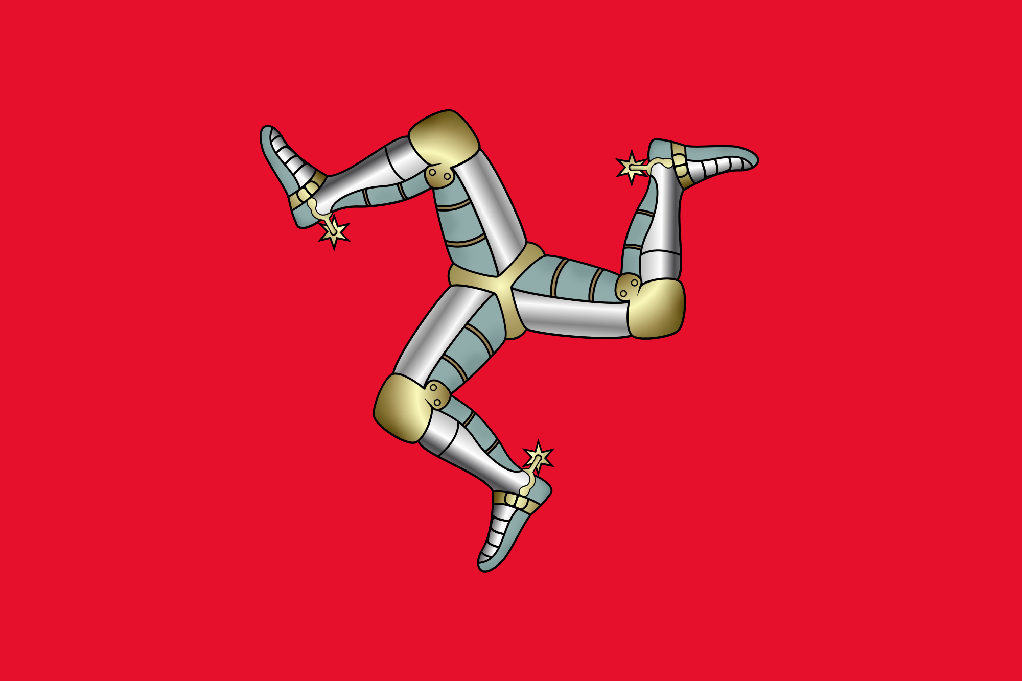 The Flag of the Isle of Man